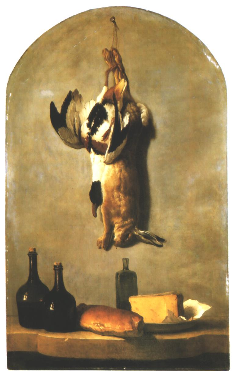 Still Life: Hare, Duck, Loaf of Bread, Cheese and Flasks of Wine